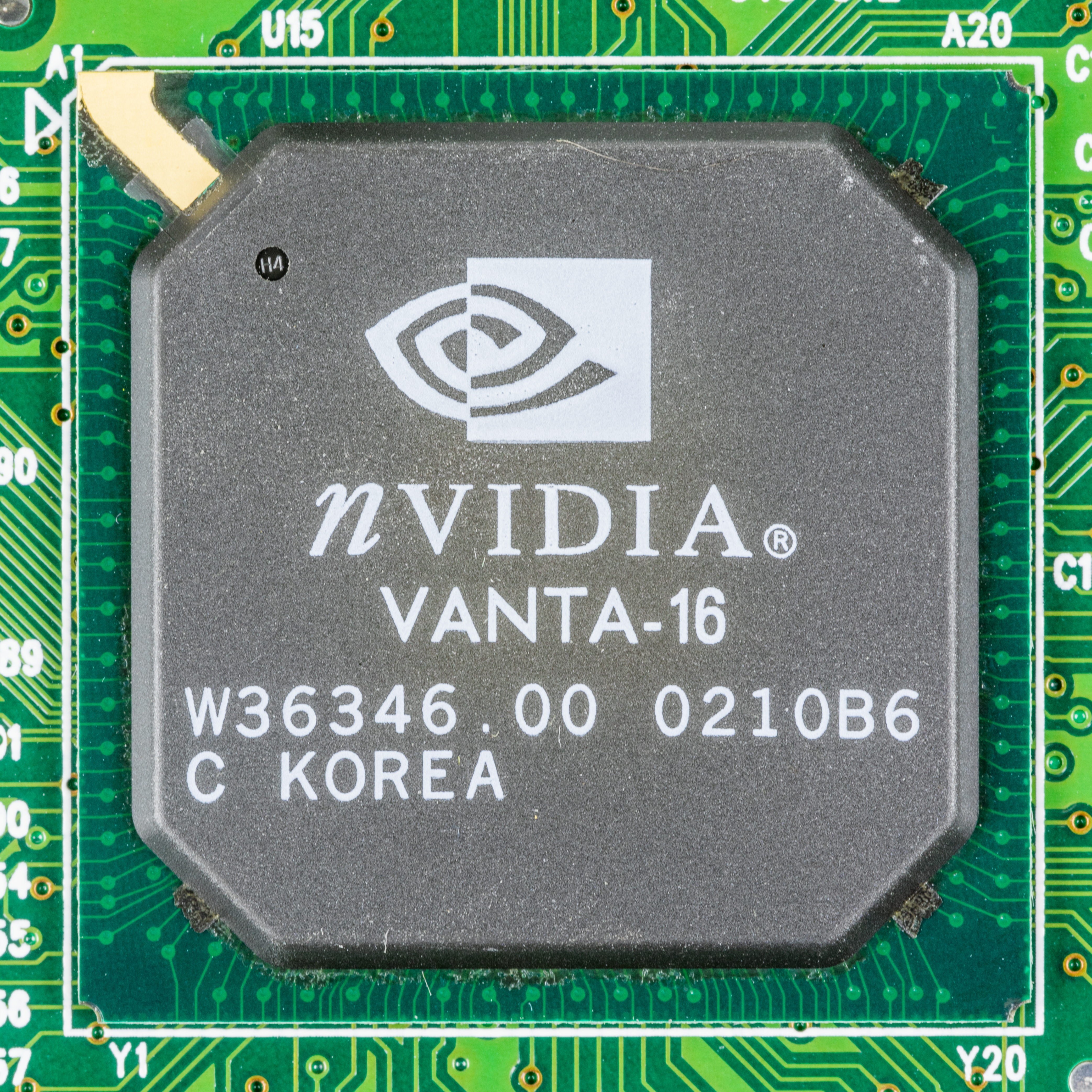 Nvidia MS-8830 with VANTA-16 graphic chip